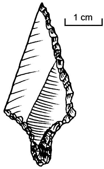 Ahrensburg point, Germany